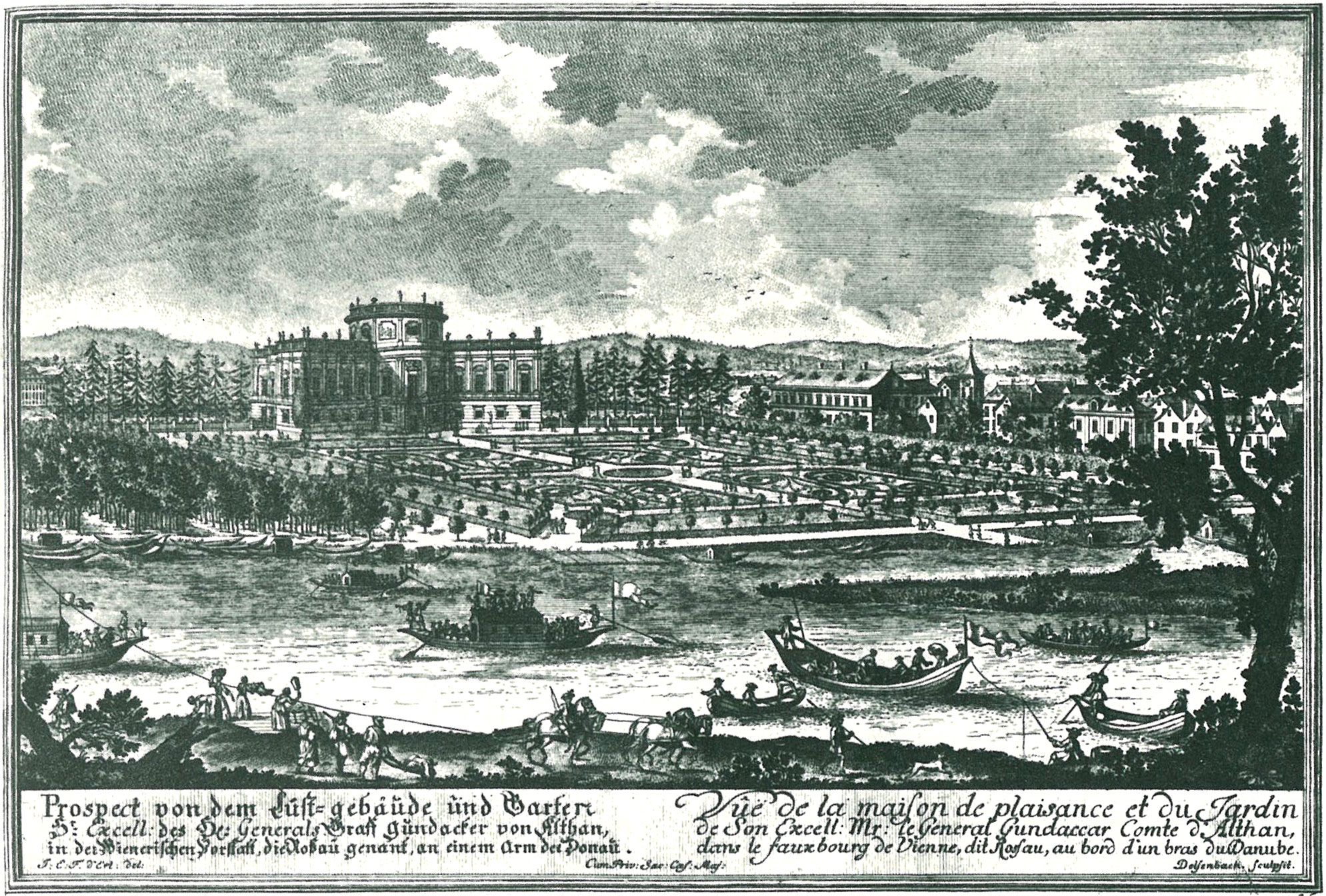 Image of the Palais Althan-Pouthon, seen from the Donaukanal riverside.